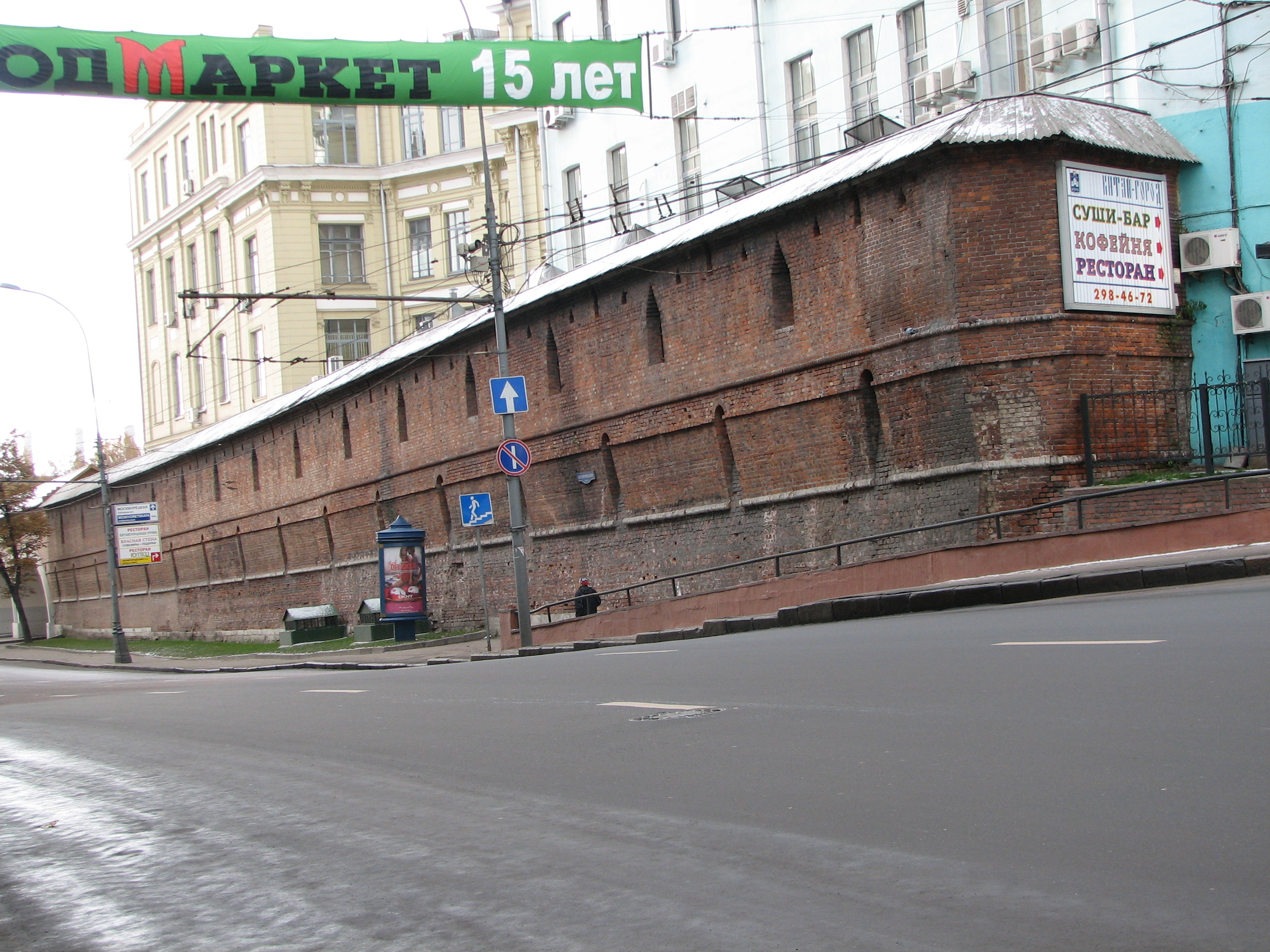 Kitai-gorod's Wall